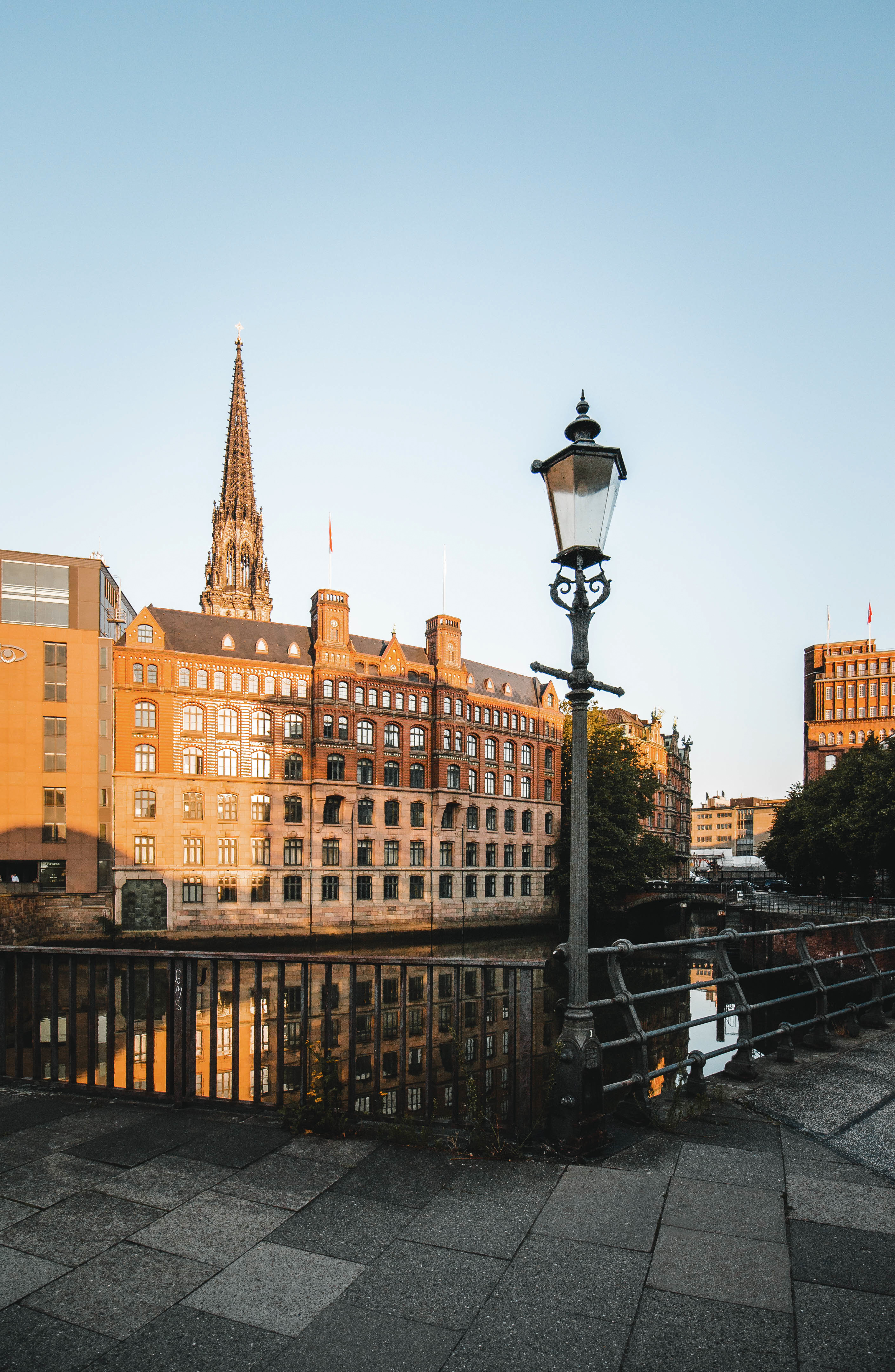 Shows the Laiszhof, Trostbrücke and the St. Nikolai church in the Background.